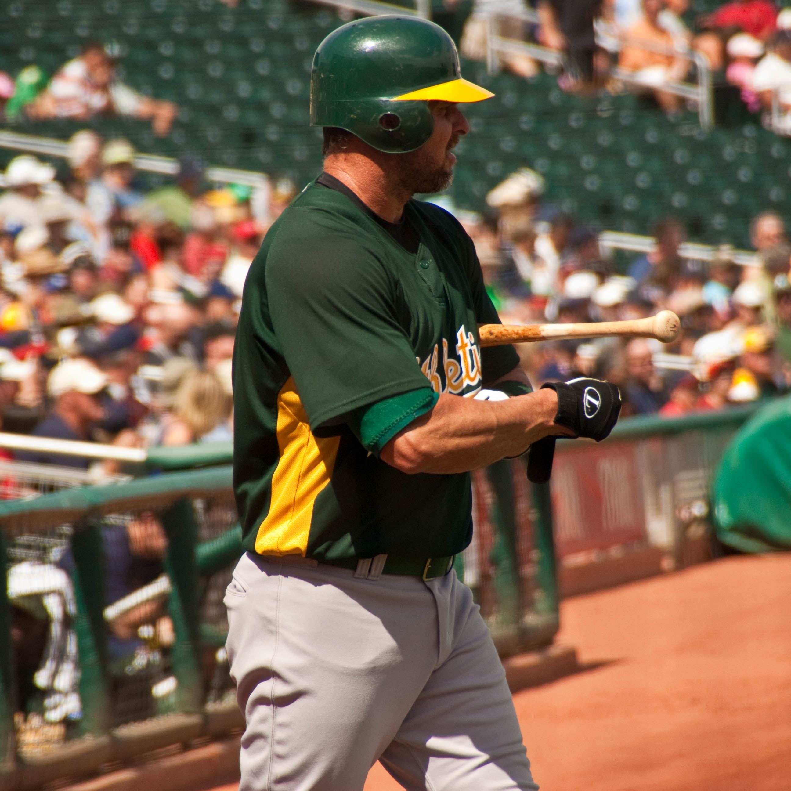 Jason Giambi